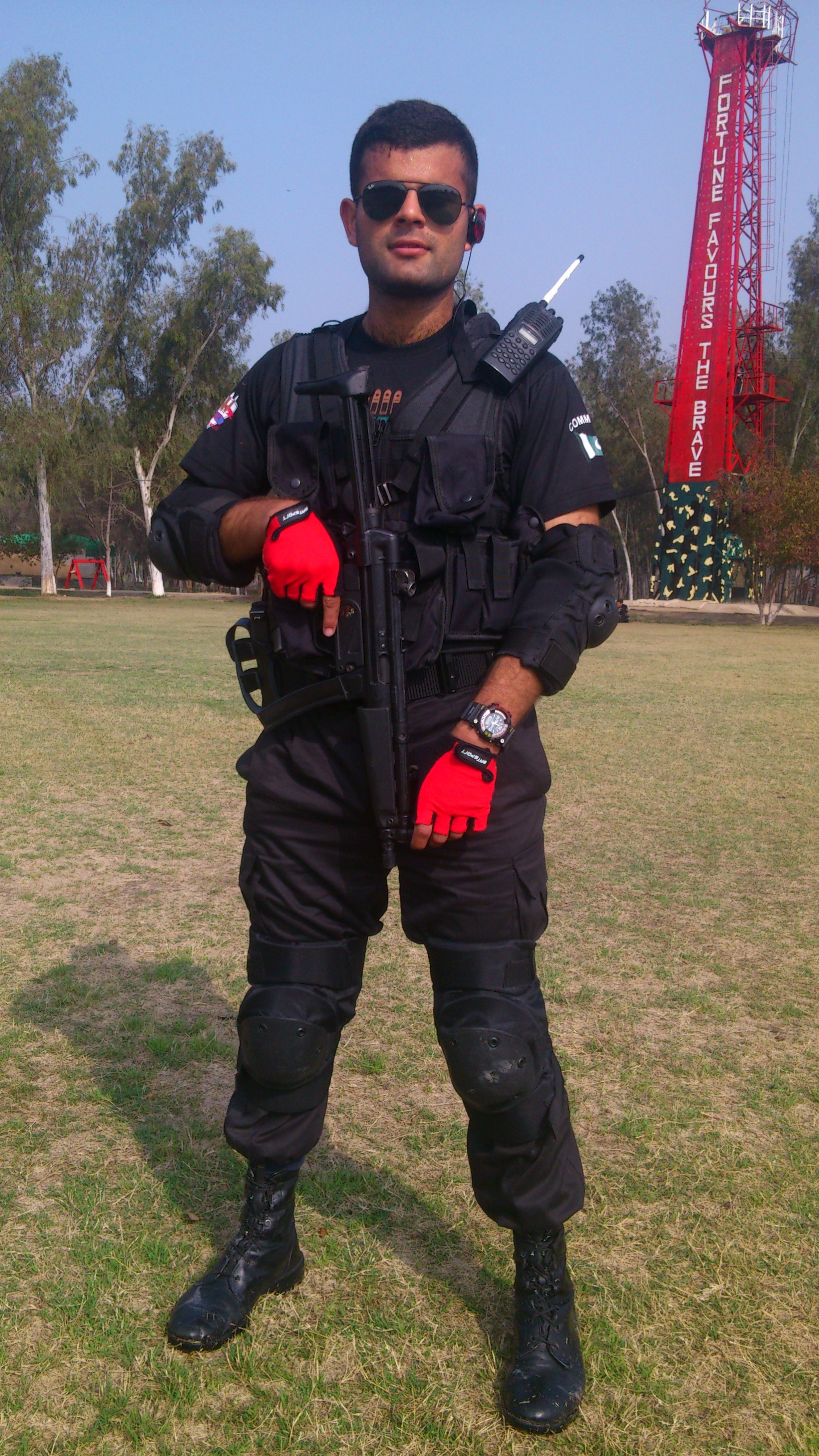 A young Pakistani Elite Police Commando!!!